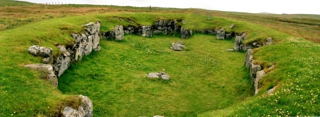 Staneydale Neolithic Temple. Although called Staneydale Temple, it is not known what the function of this for its time very large building was. One interesting feature is that it stands in one of very few places in Shetland from which the sea cannot be seen in any direction.